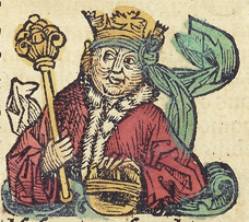 Illustration from the Nuremberg Chronicle (Latin edition in Sao Paulo)